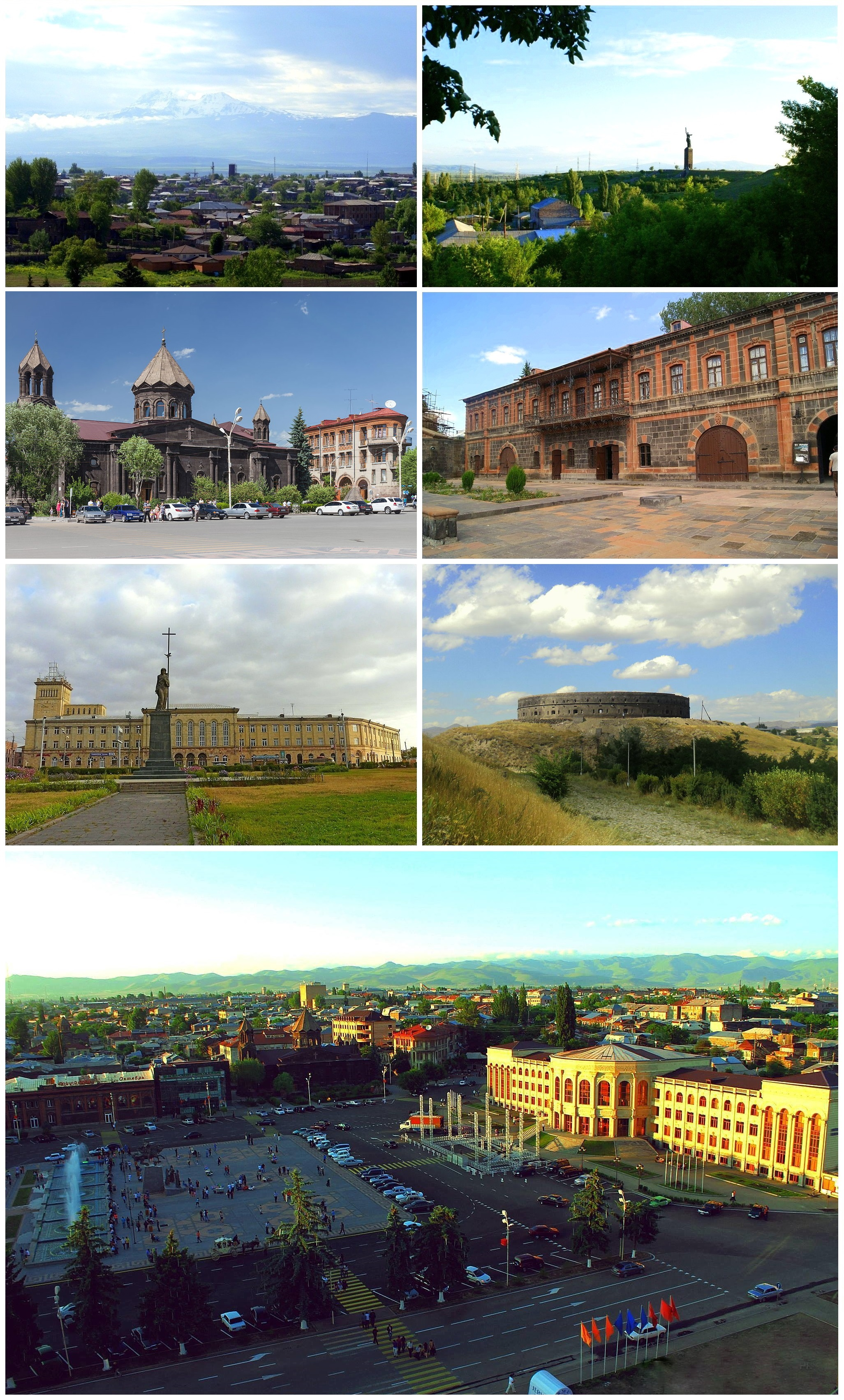 Gyumri mix 2016